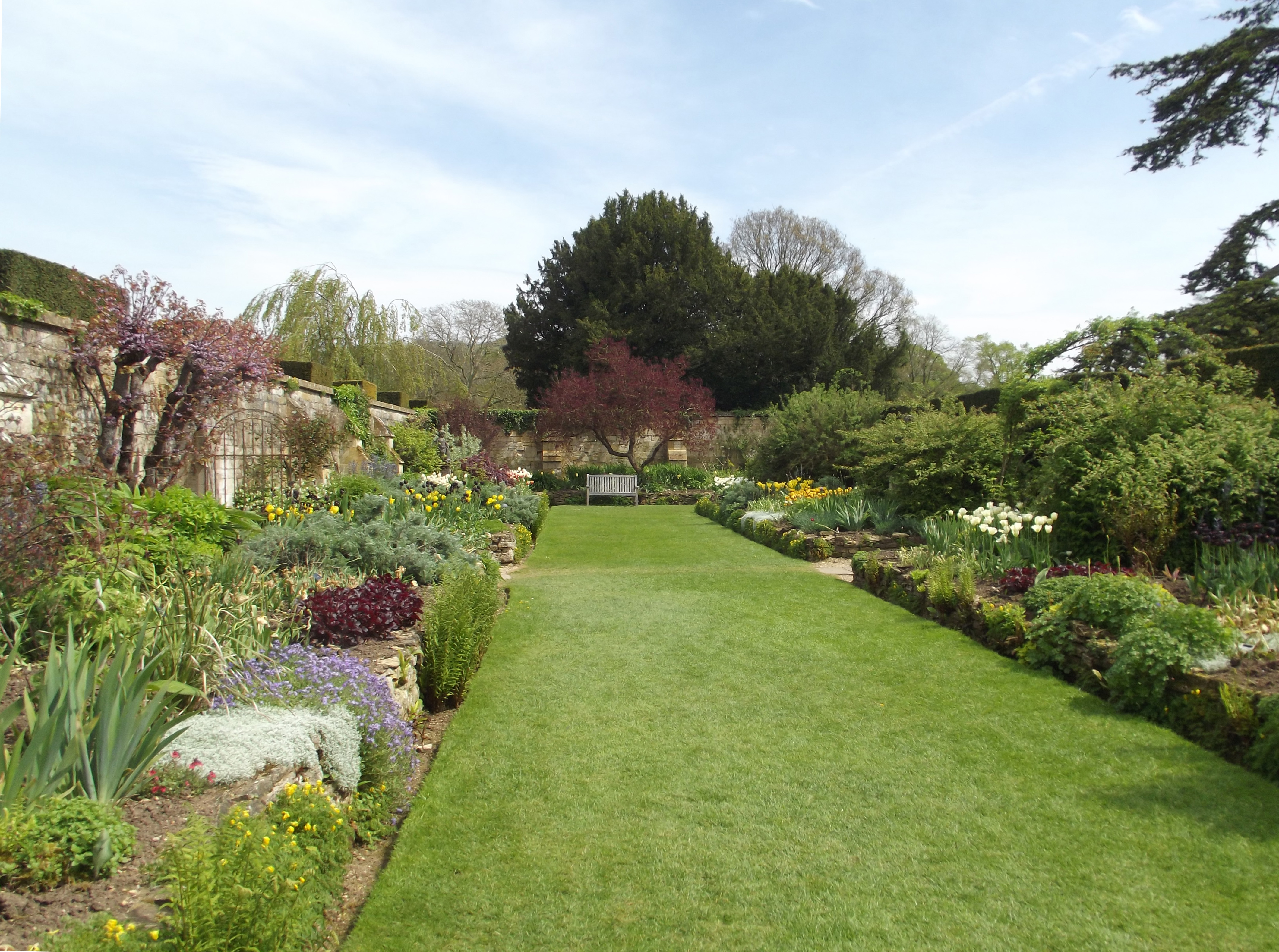 Sudeley Castle, Secret Garden